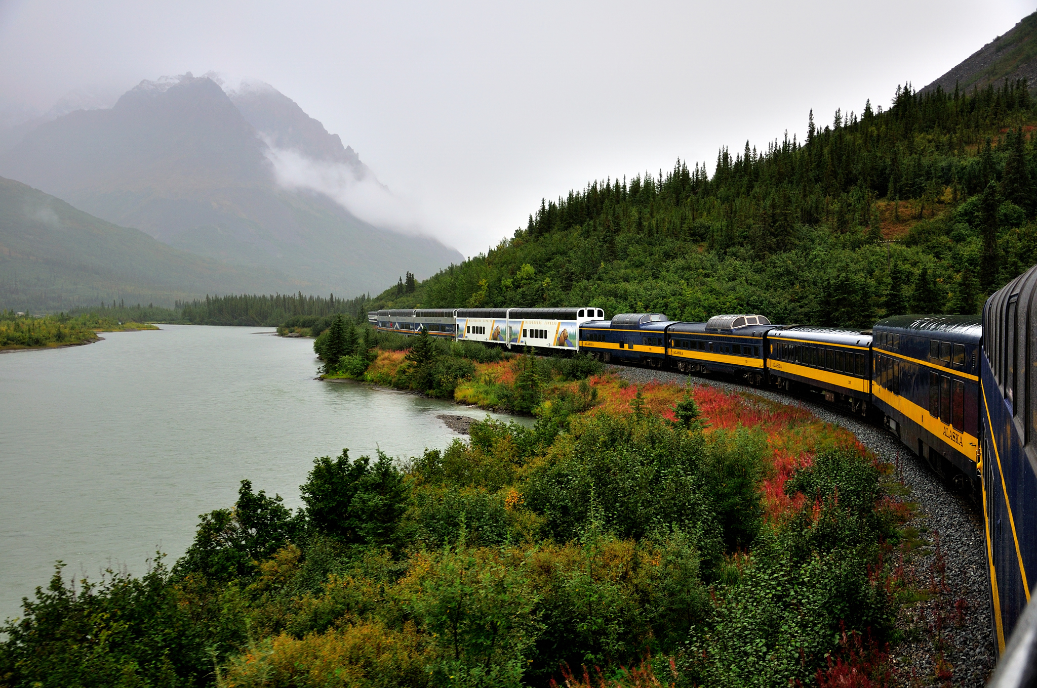 Alaska RR Denali Star rounding a curve near Denali, AK